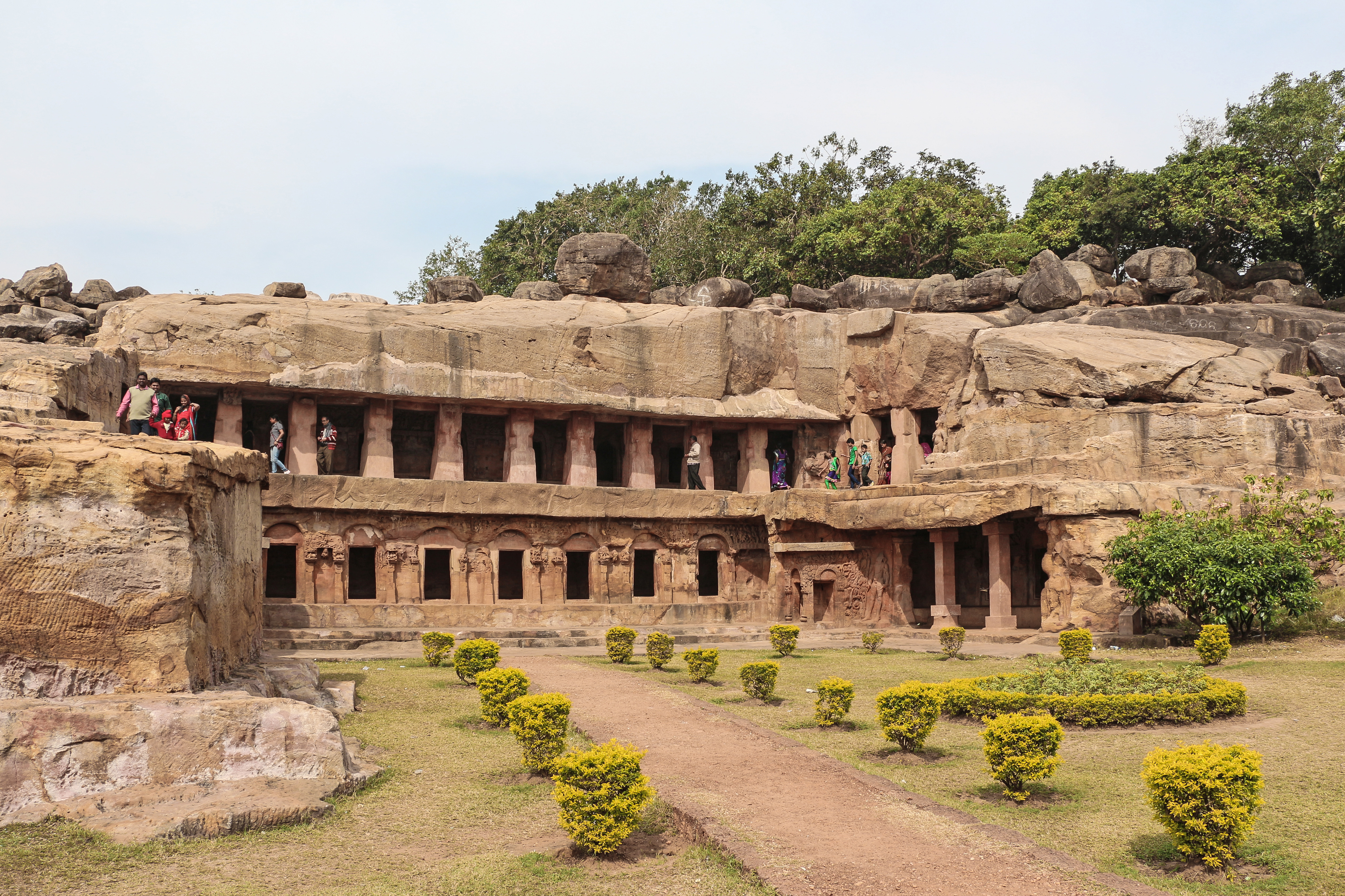 Rani Gumpha cave at Udayagiri Caves complex, near Bhubaneswar, India